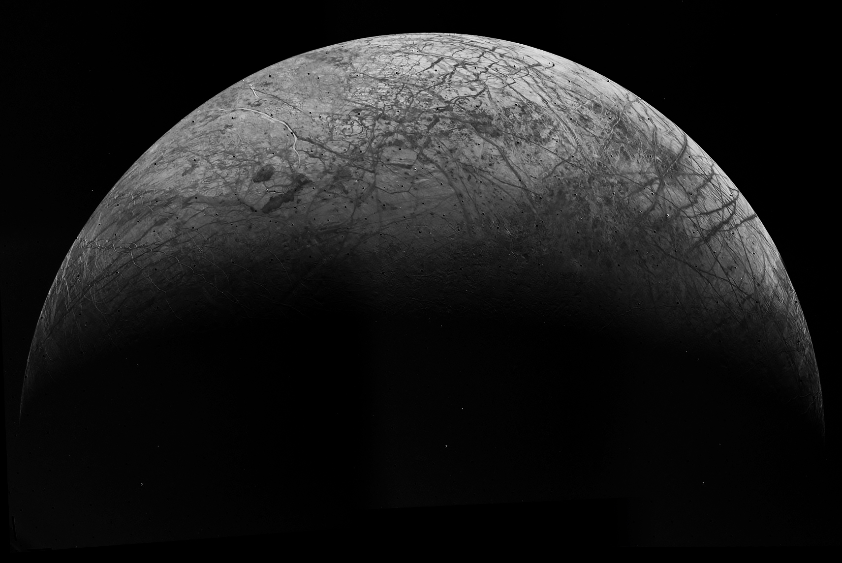 Image credit: NASA/JPL/Processed by Kevin M. Gill